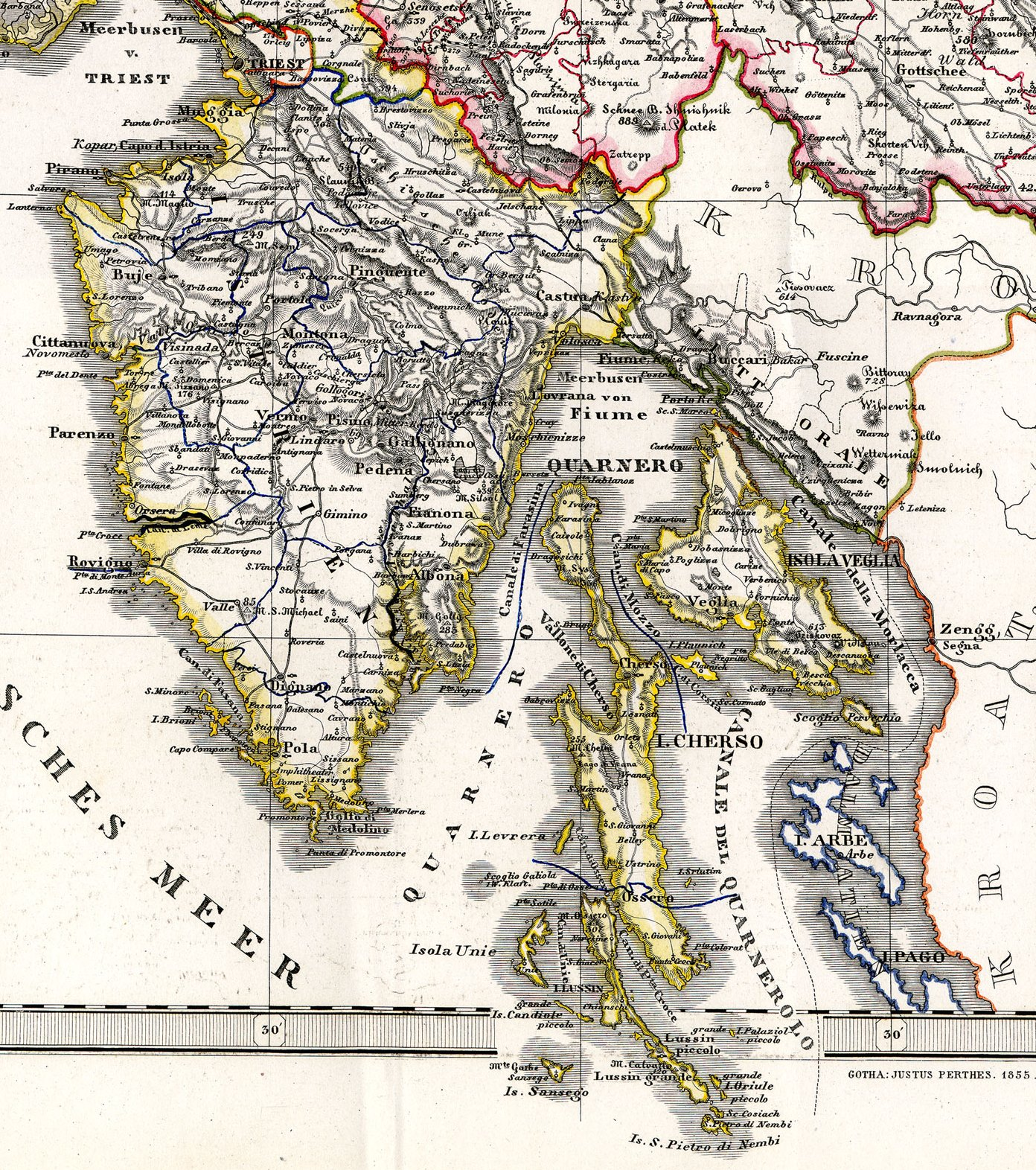 Margravate of Istria, 1849-1918